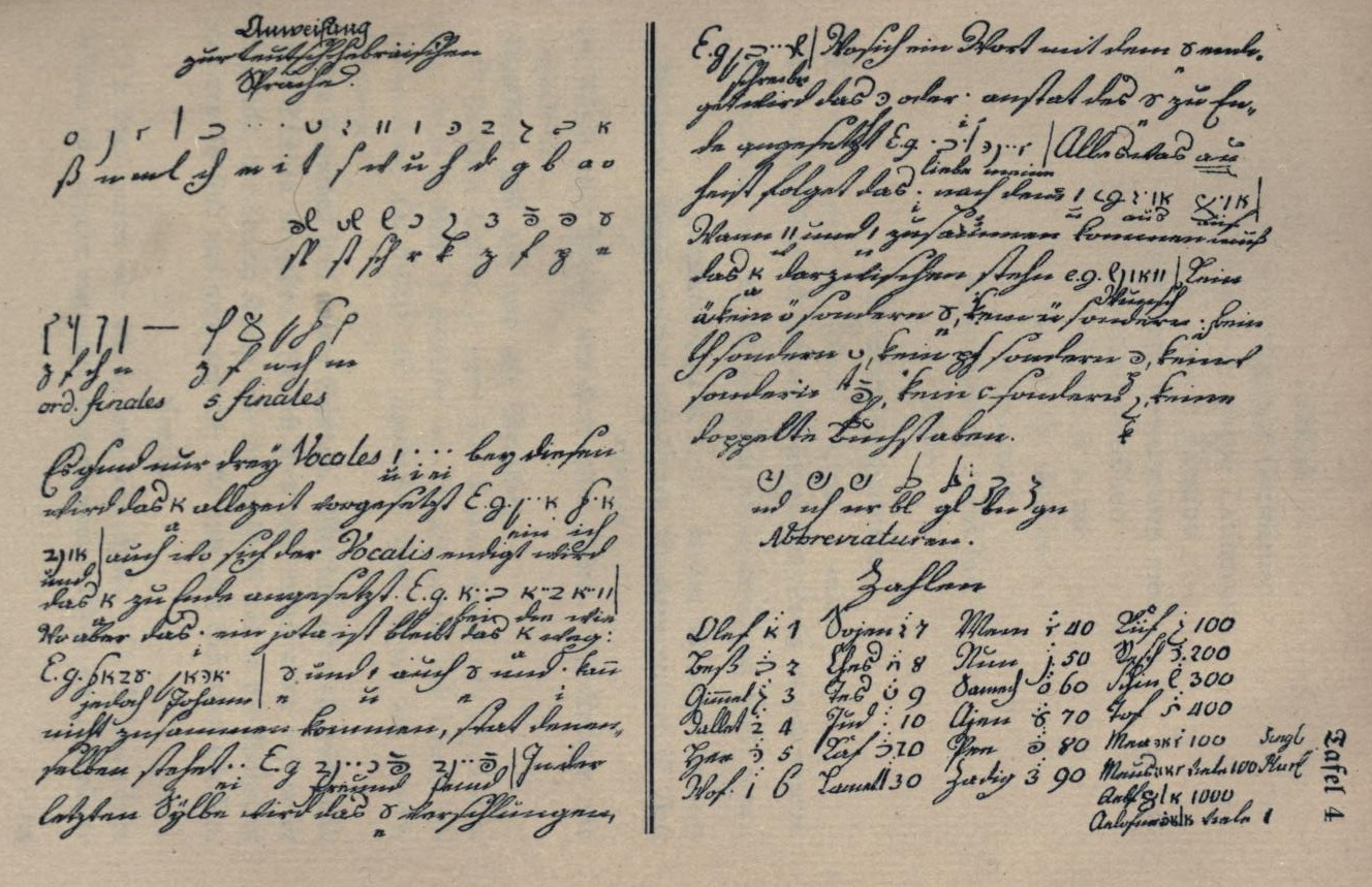 Goethe's notebook from the time he studied Judaeo-German in 1760, with a few words and the Hebrew alphabet all written by himself.